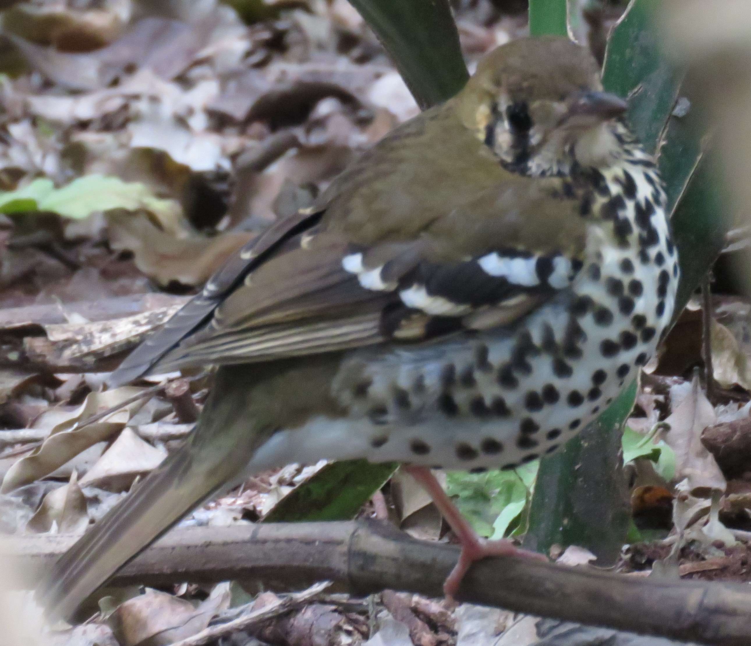 A Spotted Ground-Thrush, a migrant to the urban reserve, Pigeon Valley, Durban